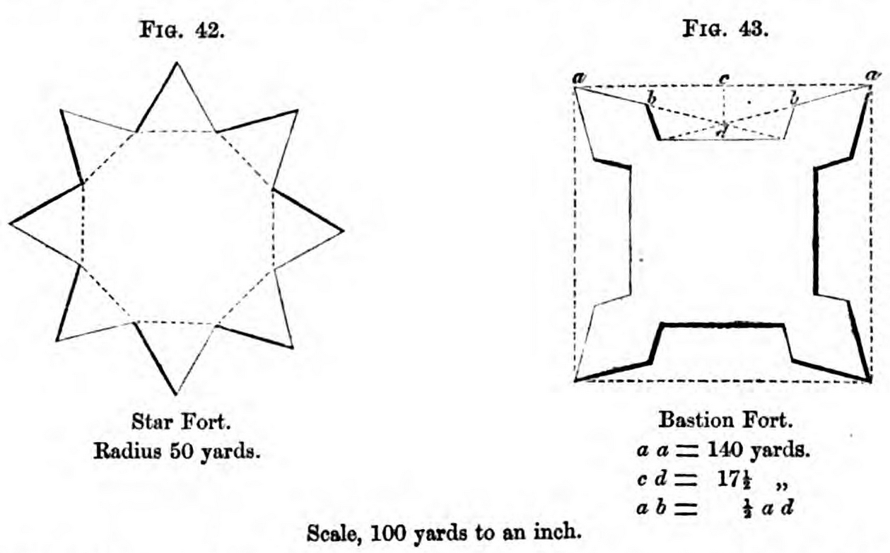 A comparison of Star Forts and Bastion Forts illustrated in "A Treatise on Fortification and Artillery" by Hector Straith, London 1858.